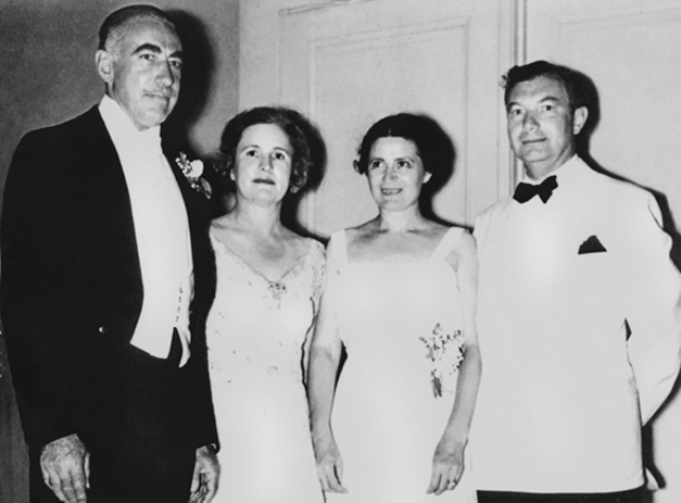 John and Maude Blair and Robert and Irene Jackson on cruise ship